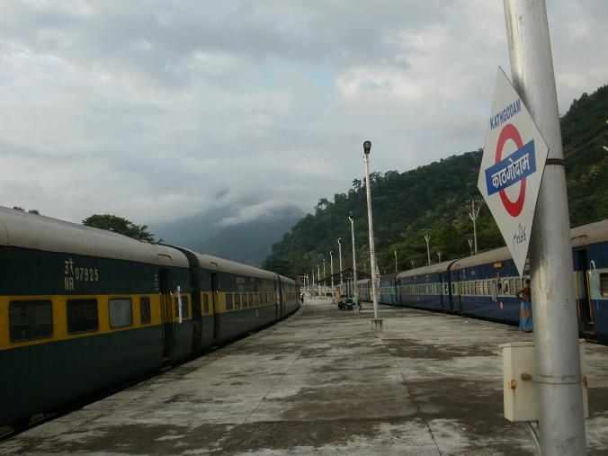 Kathgodam Railway Station